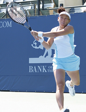 Ai Sugiyama at the U.S. Open Series at Stanford.